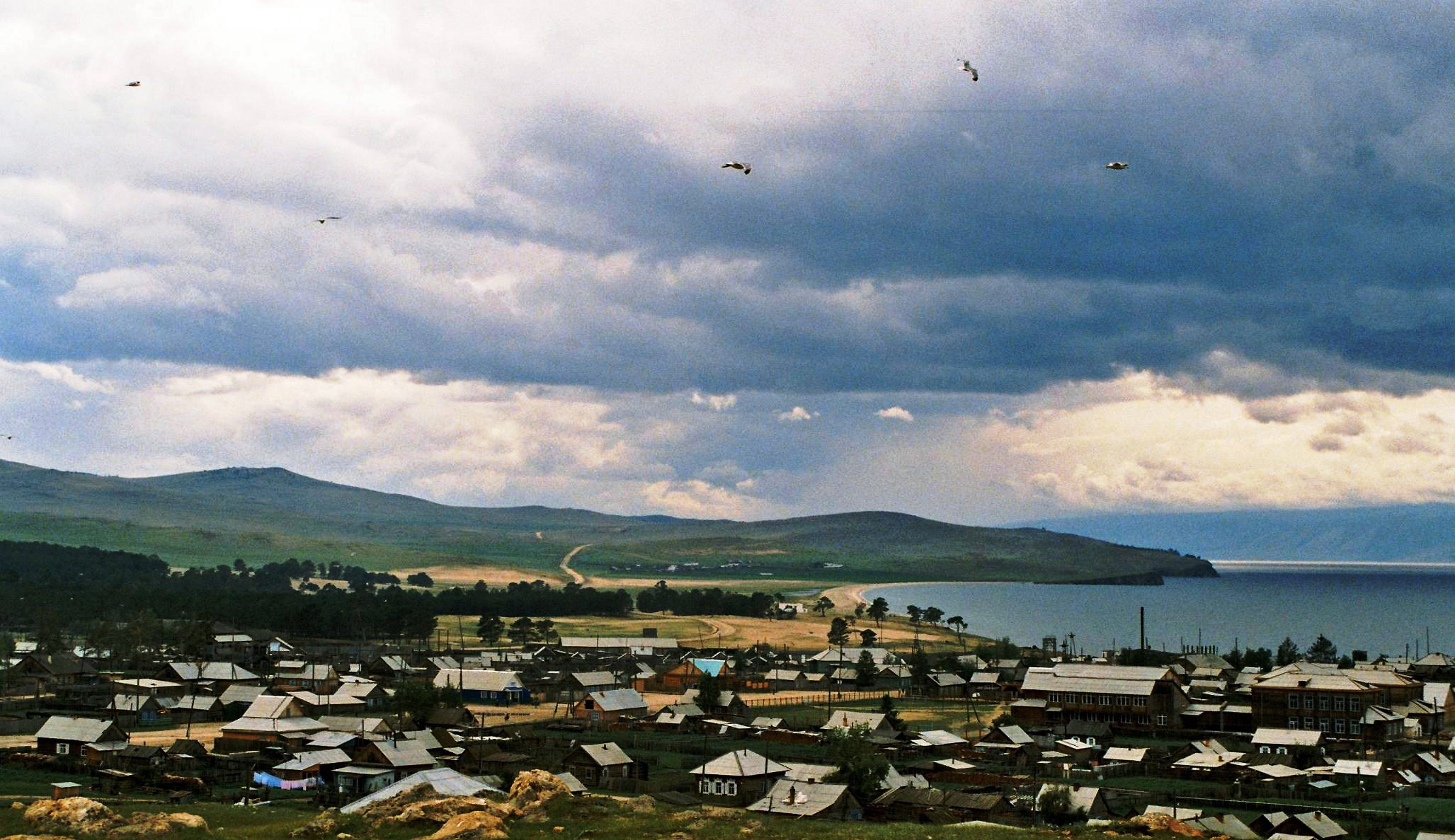 En attendant les photos du Liban, je fais patienter avec de la Sibérie... Expecting for my Photo from Lebanon... So for the moment a piece of Siberia.... Khoujir, Olkhon Island, Baïkal Lake...